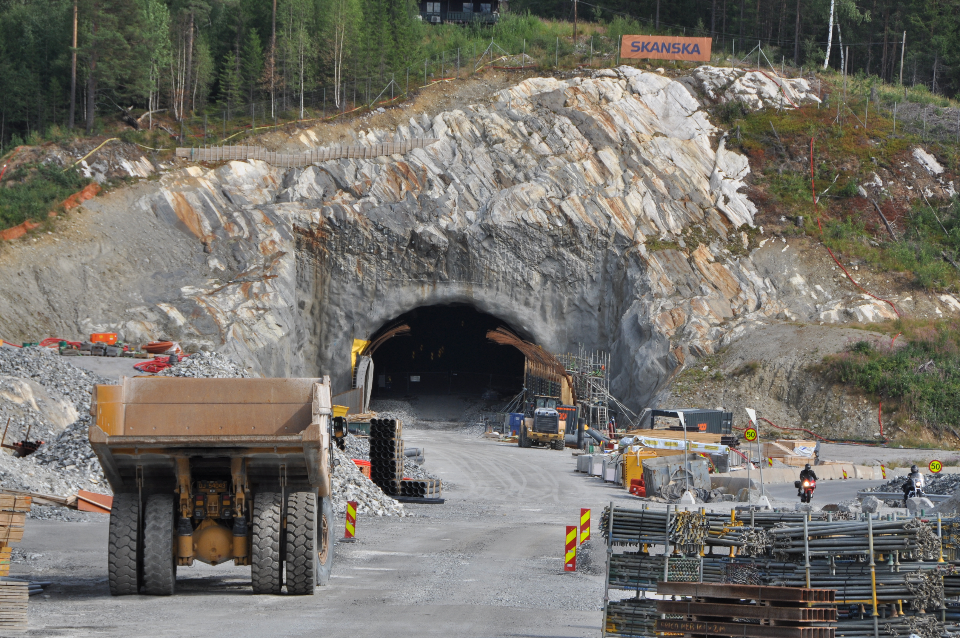 Road tunnel in process road E16 Bagn-Bjørgo